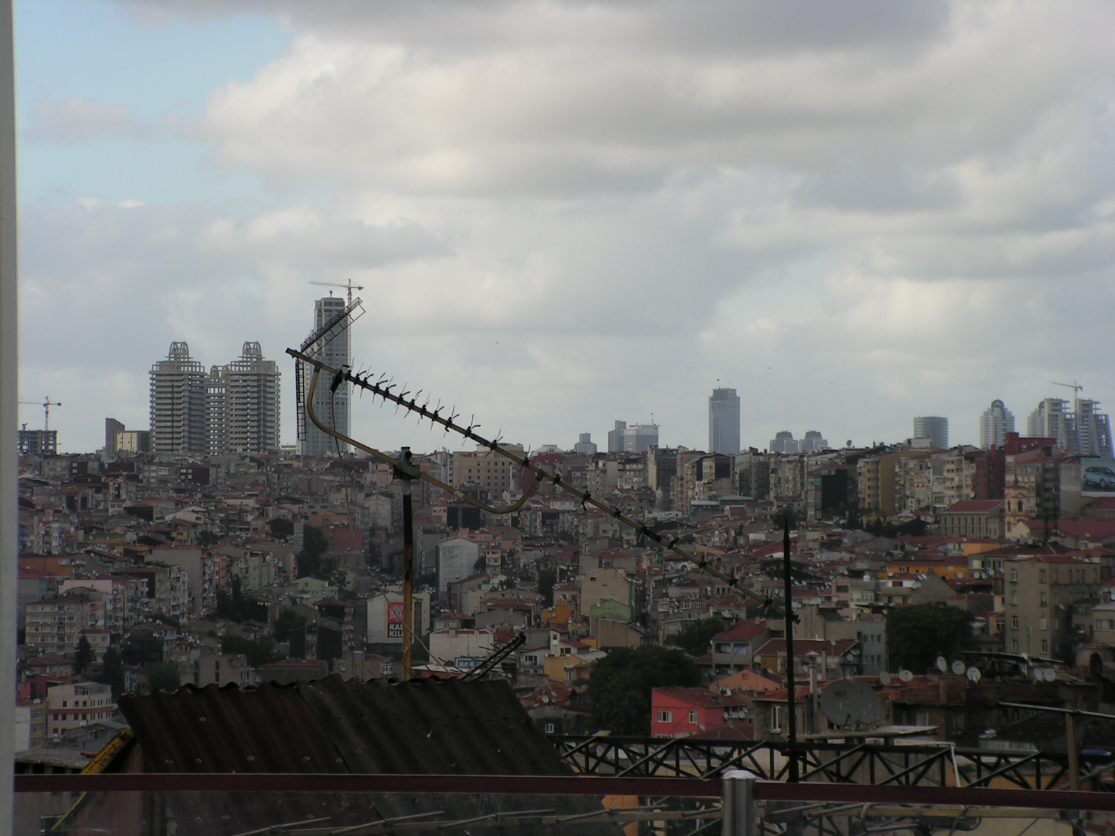 Gecekondu neighbourhood in Seyrantepe, Istanbul